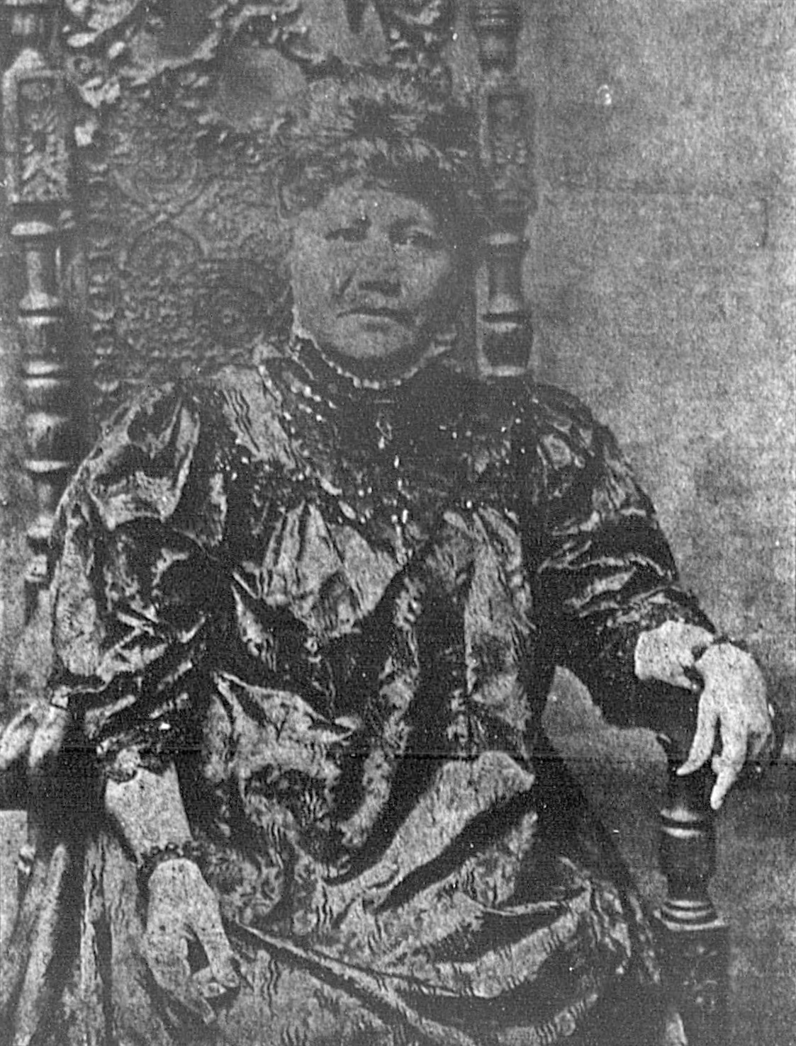 High Chiefess Maria Beckley Kahea (December 23, 1847 – July 11, 1909), was a granddaughter of Captain George Charles Beckley and High Chiefess Ahia. She was appointed kahu of the Royal Mausoleum at Mauna ʻAla in 1893. Photograph from obituary.